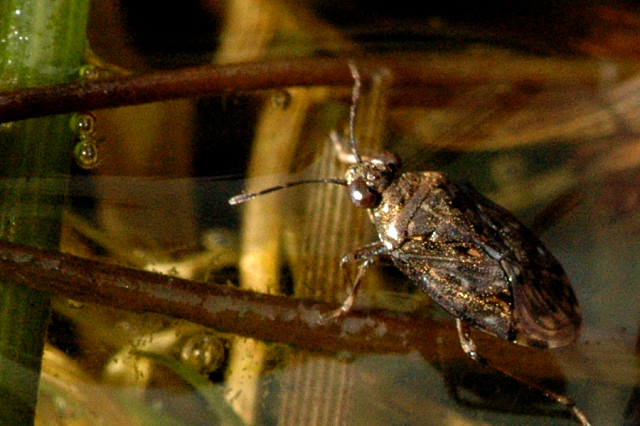 Picture taken in Commanster, Belgian High Ardennes . Species: Saldula saltatoria